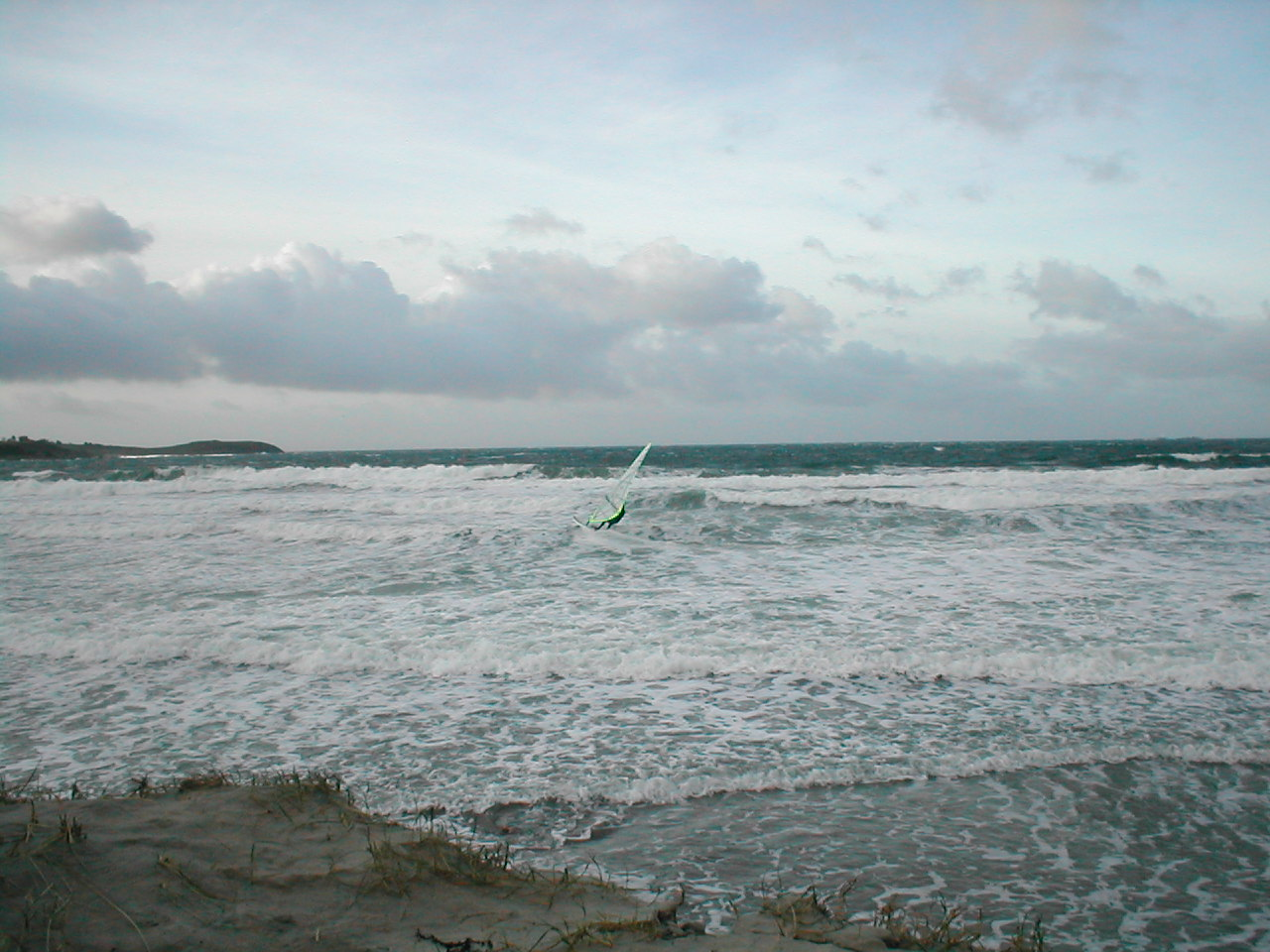 Wind surfing at Sola beach, Rogaland